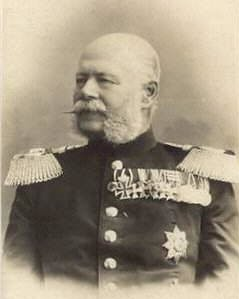 Ernst I. Duke of Sachsen-Altenburg